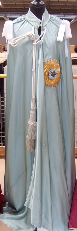 Mantle of the Most Exalted Order of the Star of India